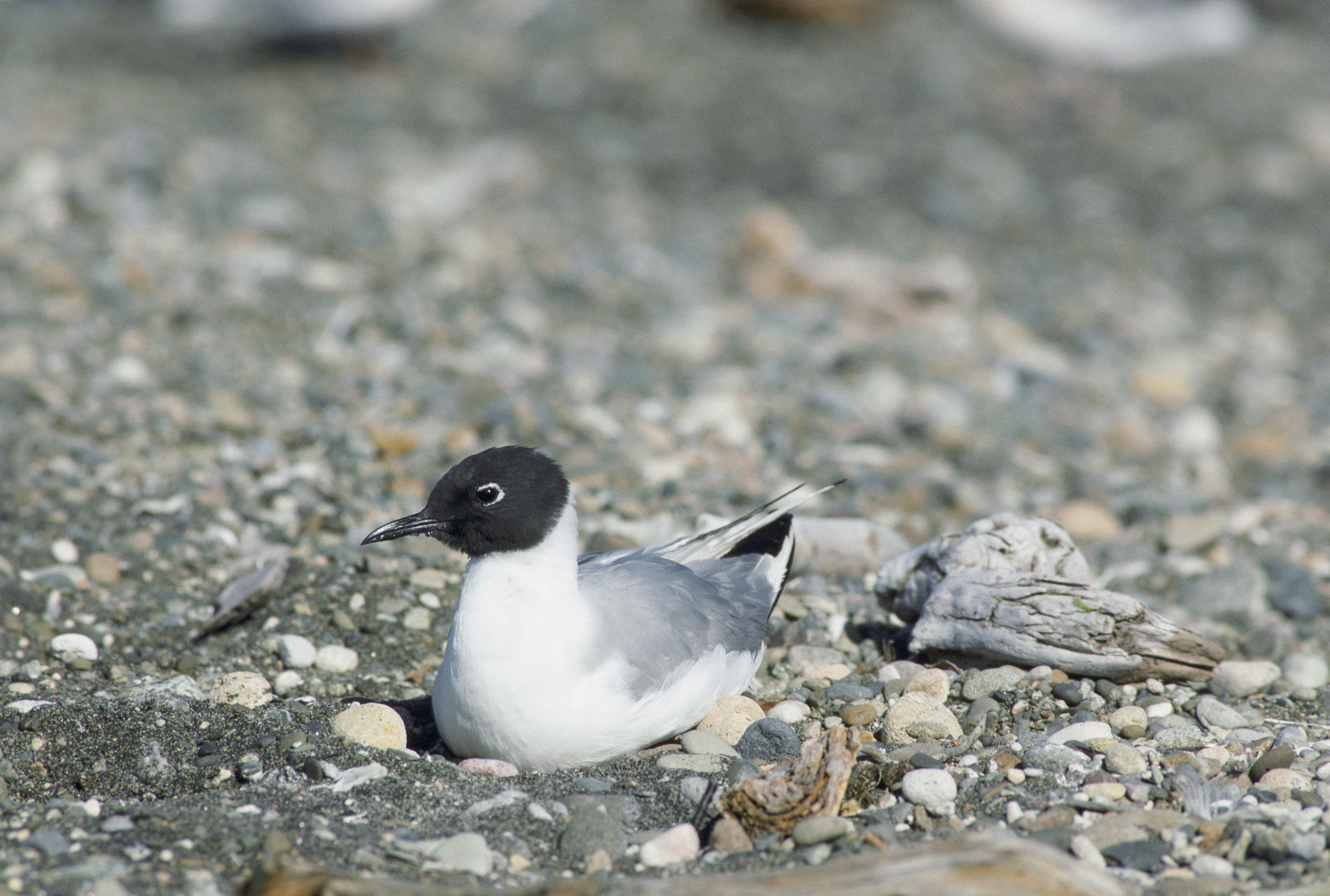 Chroicocephalus philadelphia on nest, Brooks Camp, Katmai National Park, Alaska.